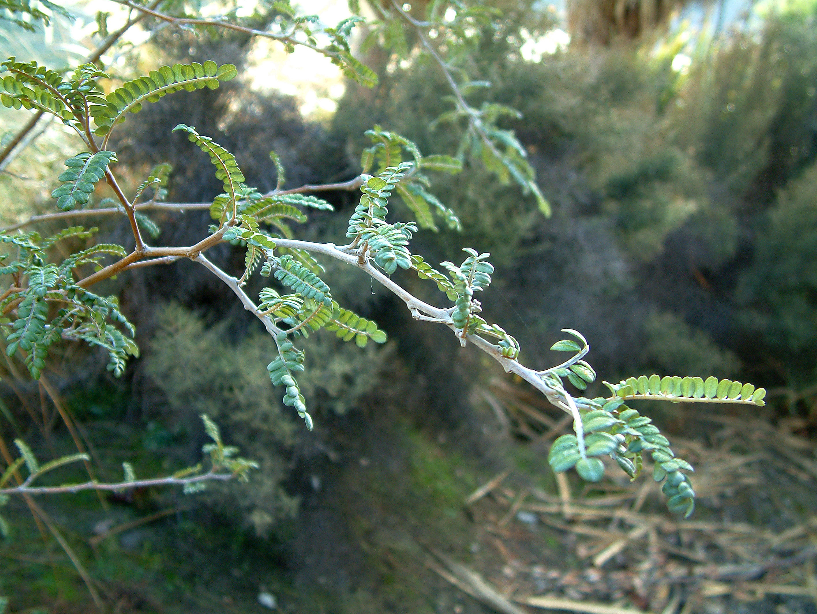 Sophora microphylla foliage (kowhai)